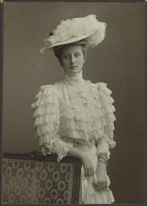 Augusta Victoria of Hohenzollern-Sigmaringen, titular queen of Portugal